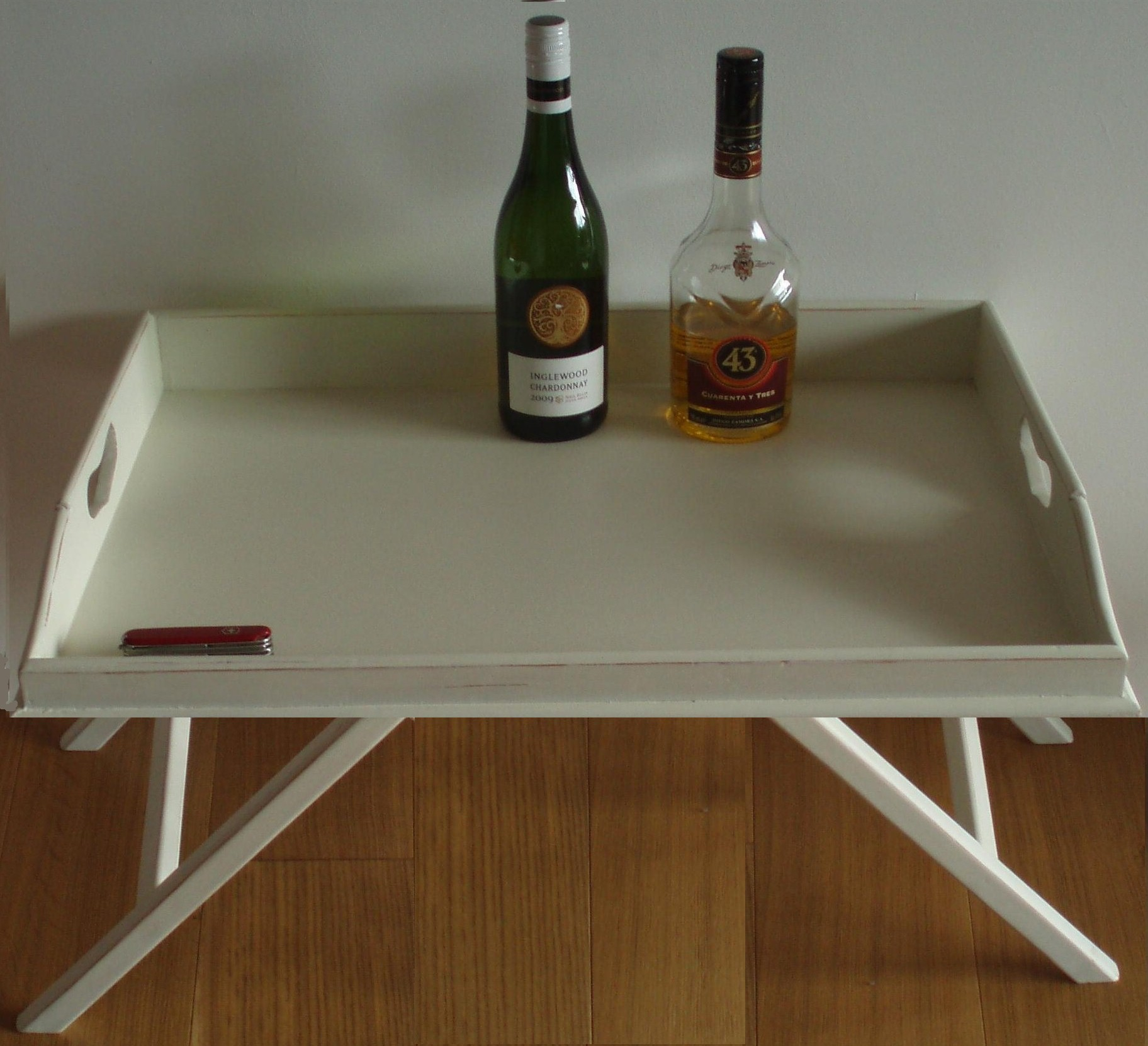 Portable Laptop Stand Foldable Bed Table